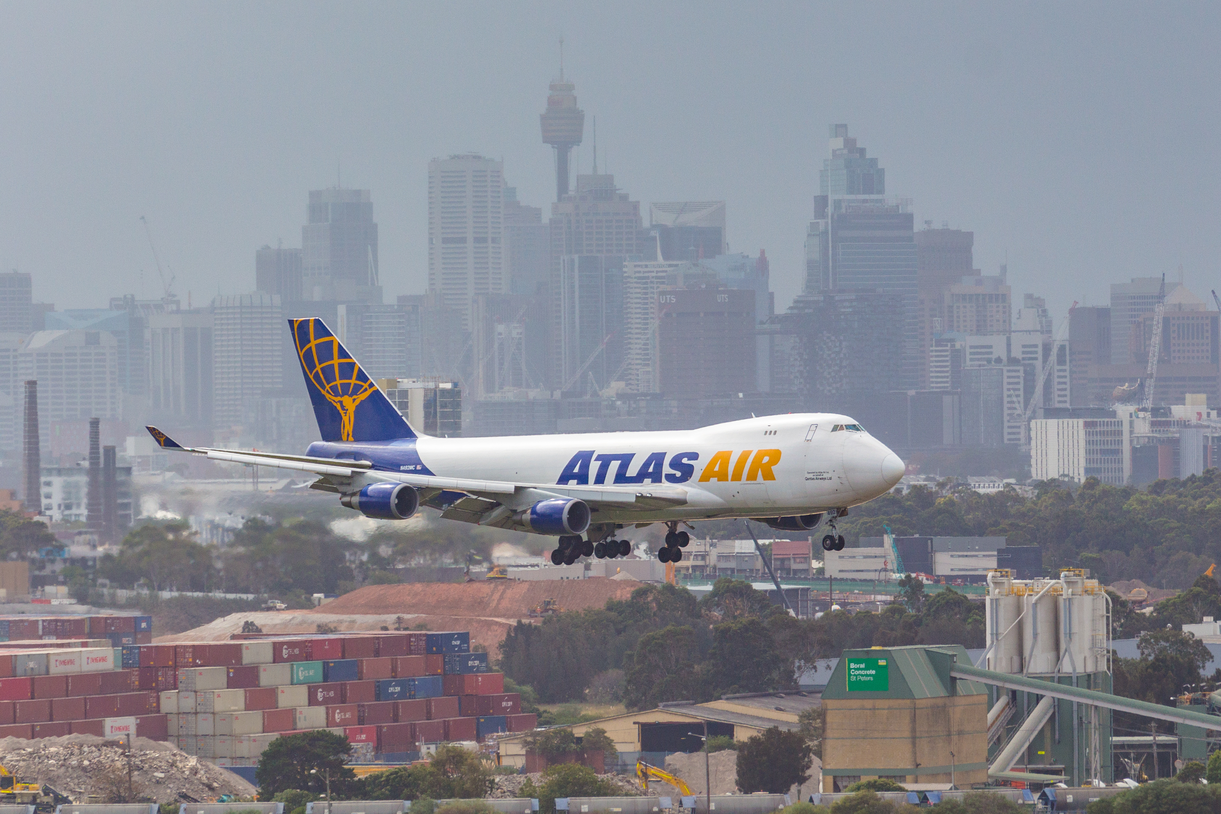 An Atlas Air Boeing 747-400F, operated by Qantas Freight, coming into land at Sydney Airport